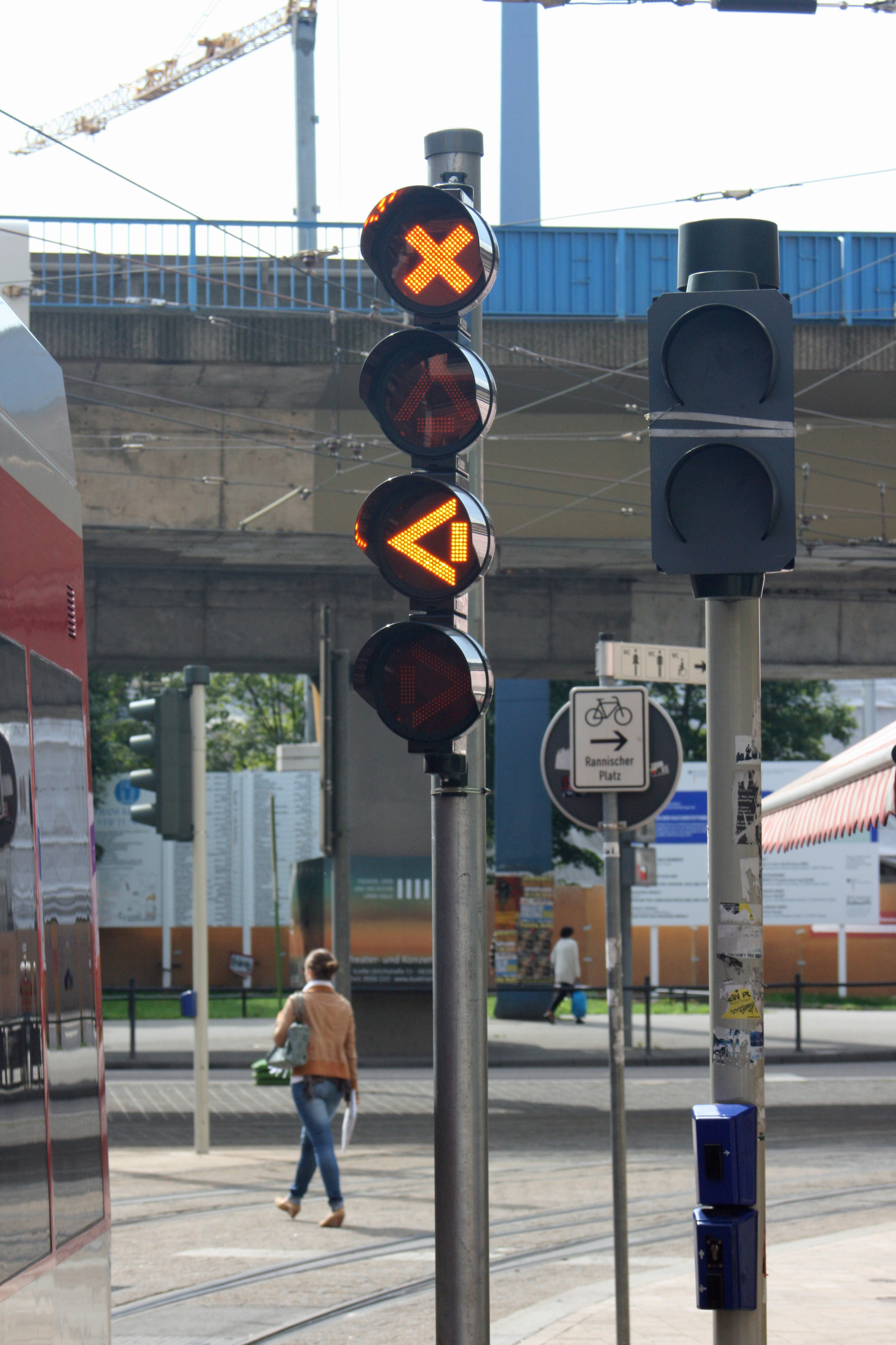 Tram signs in Germany: W 0 together with W 13